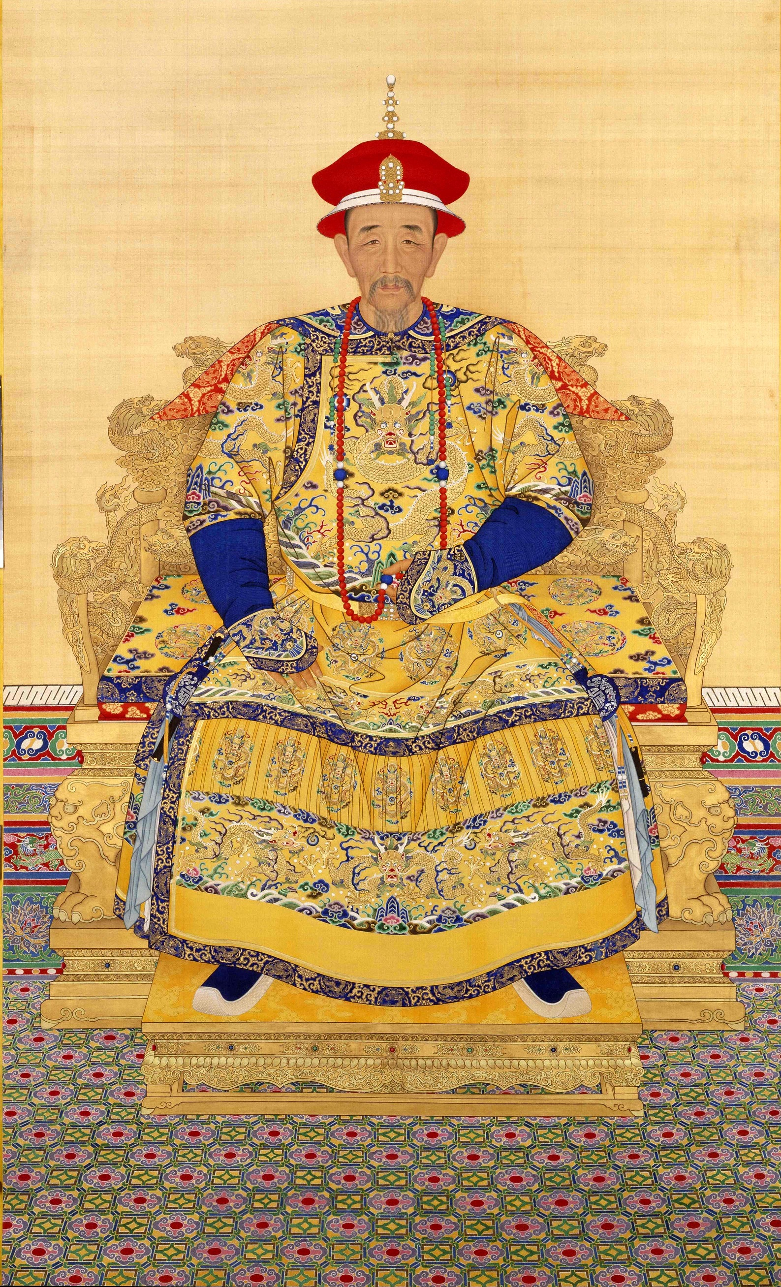 Portrait of the Kangxi Emperor in Court Dress